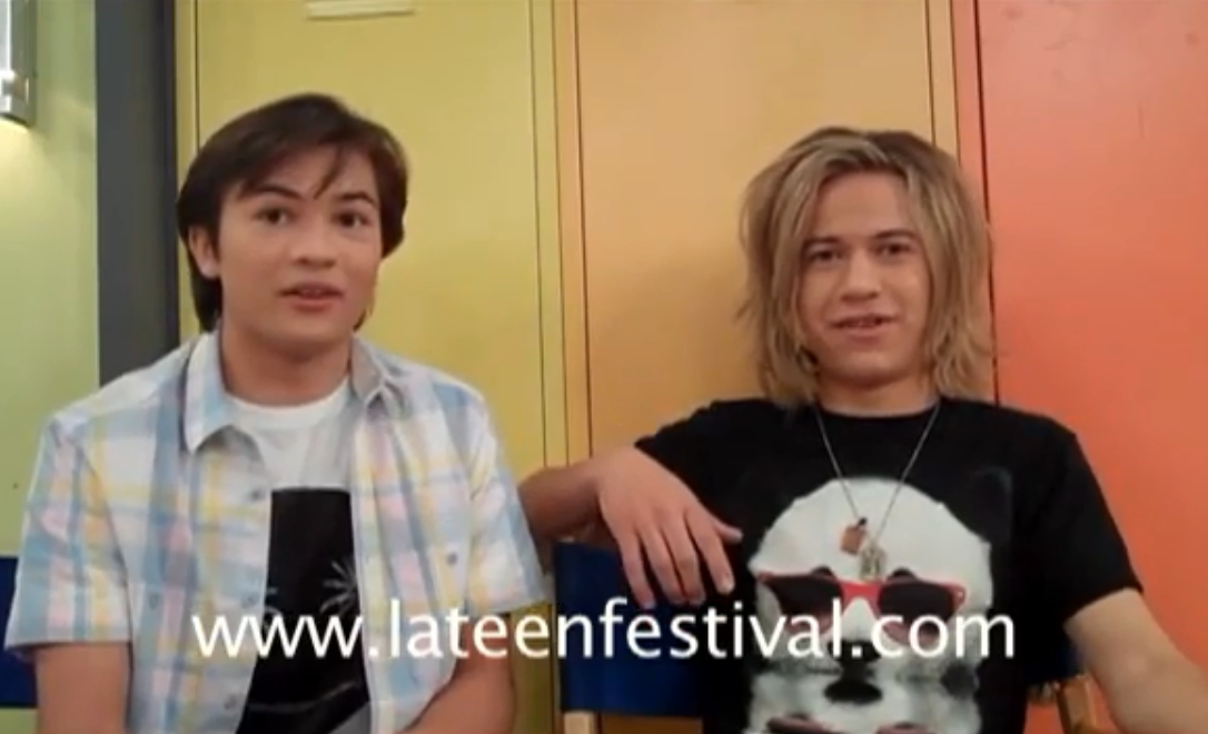 Taylor Gray and Dillon Lane from Nickelodeon's Bucket & Skinner's Epic Adventures tell LA Teen Festival something you don't know about each other. You can read the entire interview at in issue #13.